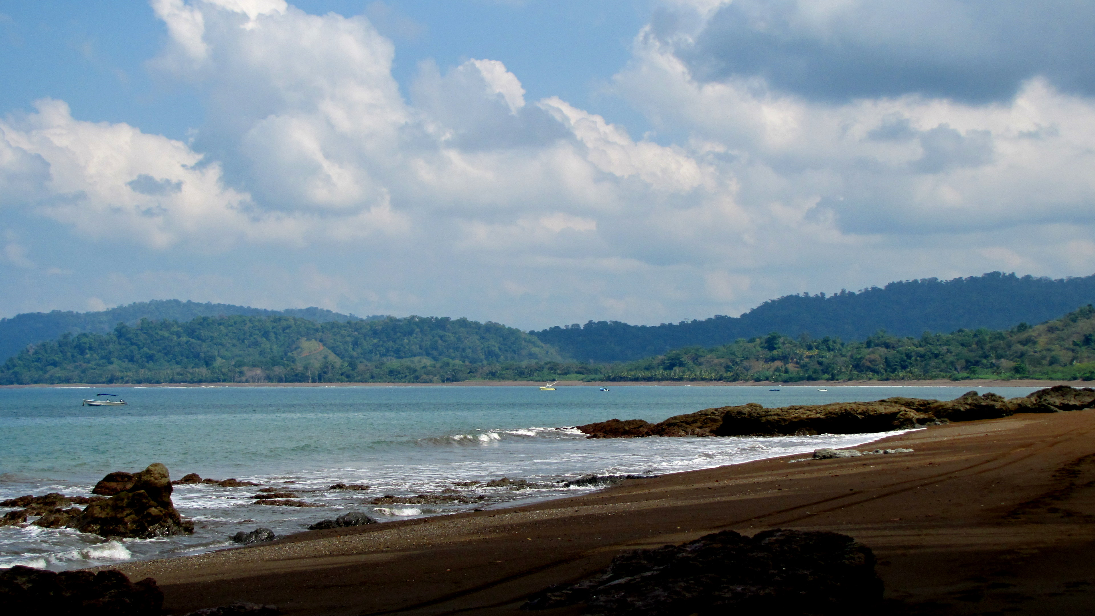 This picture was taken in Drake Bay, Península de Osa, Costa Rica